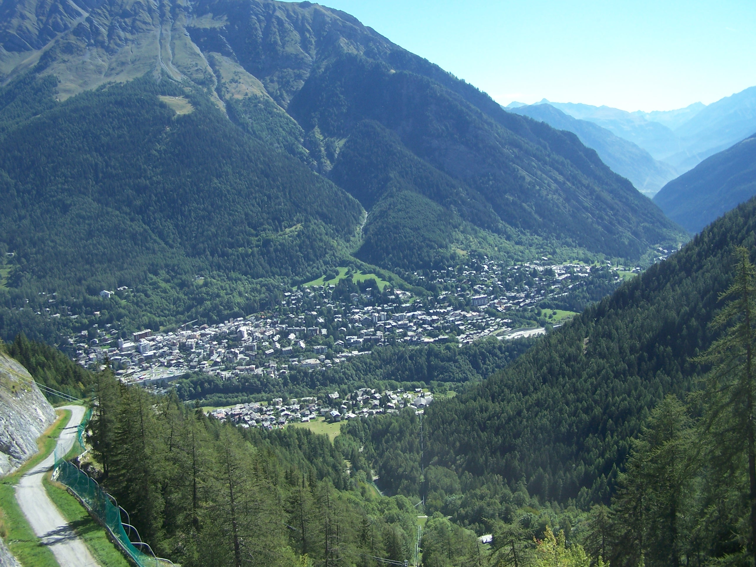 view on Courmayeur, Aosta valley, Italy